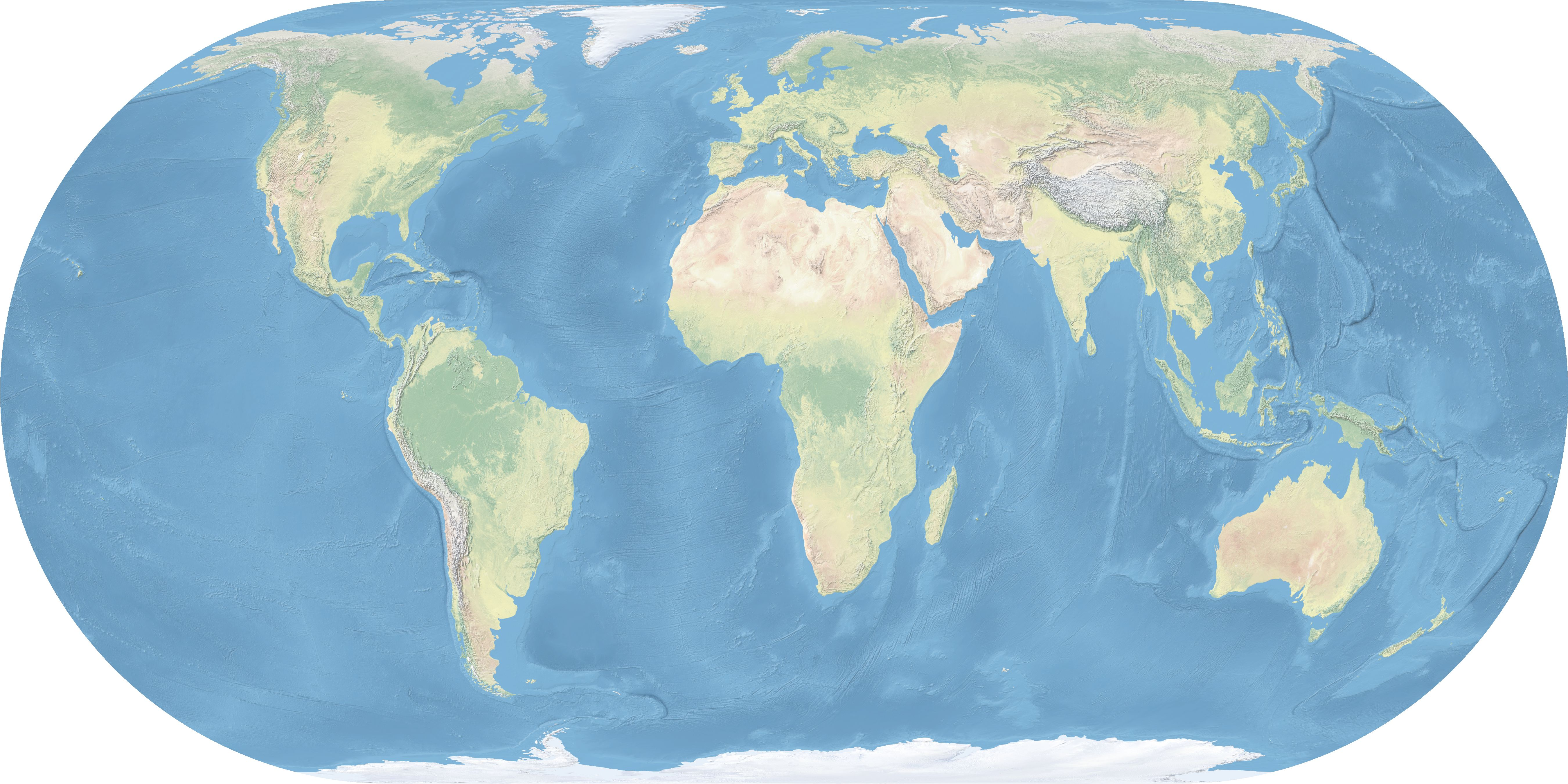 world map made with natural earth data, eckert 4 projection, central meridian 10 ° east